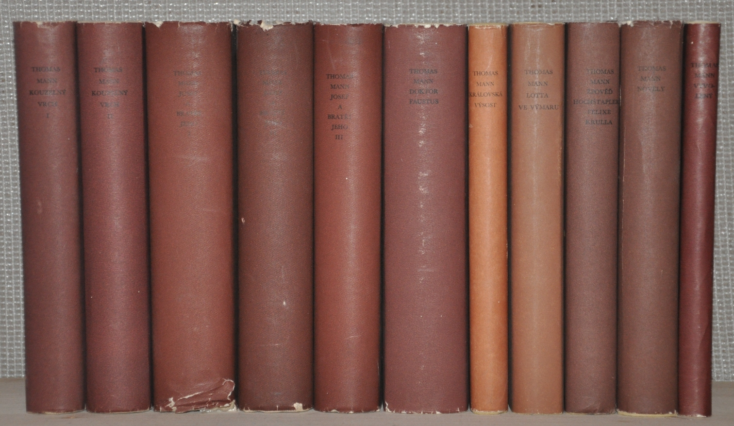 Works of Thomas Mann in Czech, 11 volumes in Knihovna klasiků, 1958 - 1987.